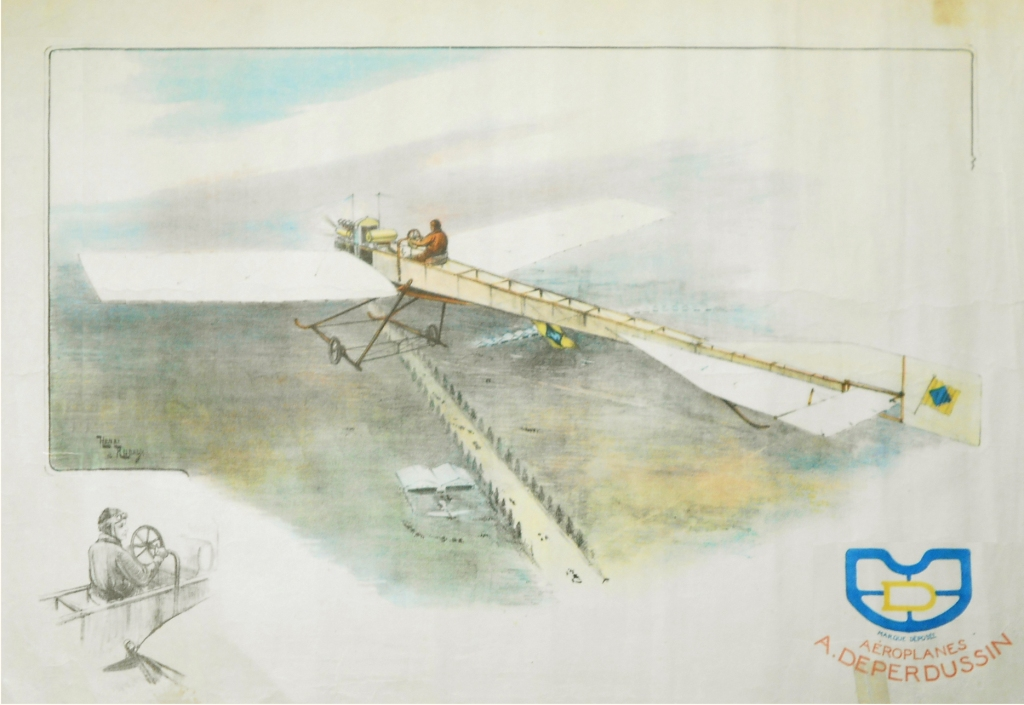 Early Airplane Deperdussin